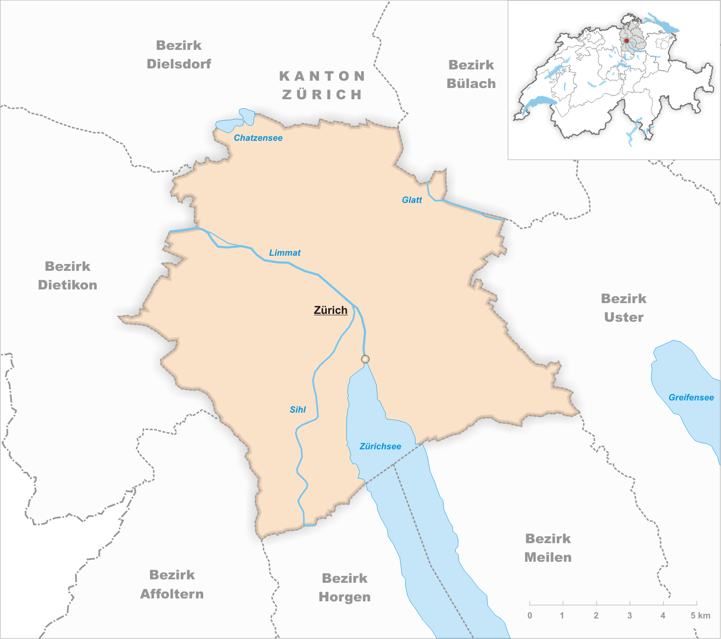 Municipality Zürich